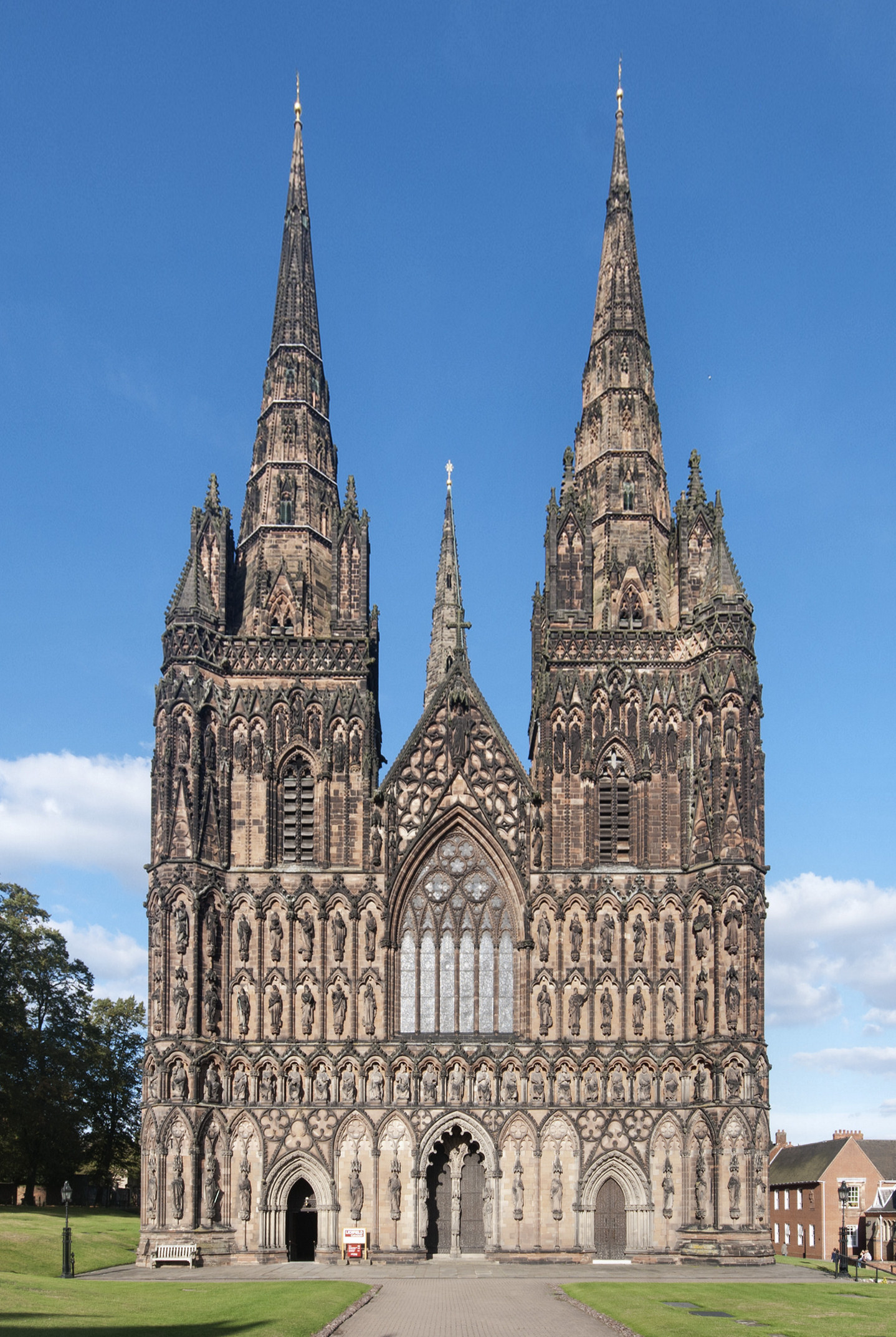 The west front and main entrance to Lichfield Cathedral in Staffordshire, England.